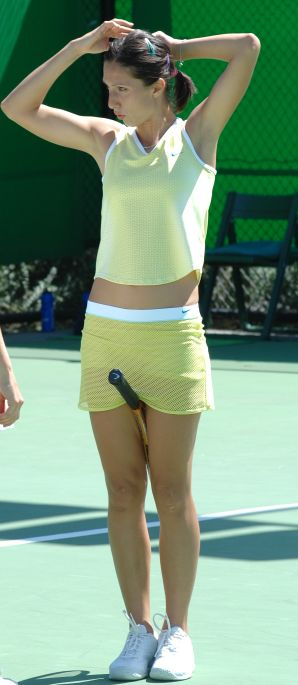 Break during doubles match at the 2005 Australian Open.